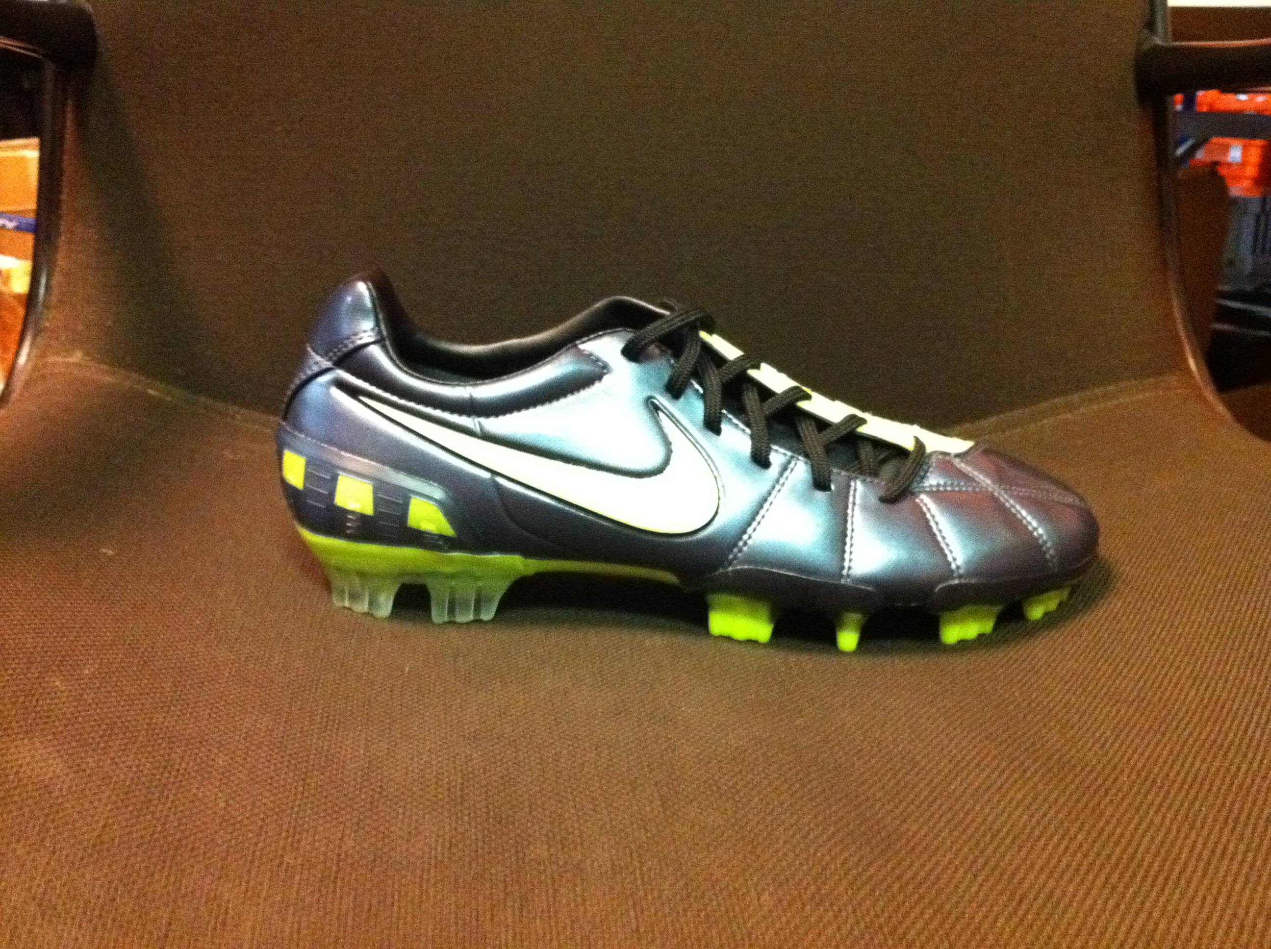 Nike Laser III Synthetic Blue/Black/Volt Colorway